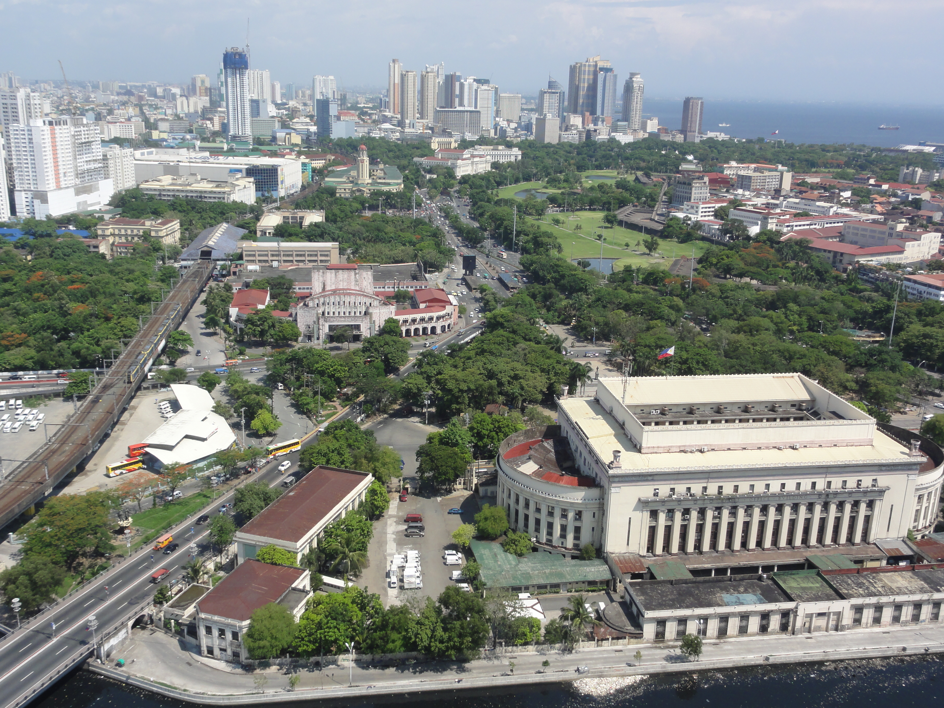 Aerial view of Manila's city center area (Padre Burgos area) in Ermita, Manila as of June 2015. Seen on the photo are Metropolitan Theater, Post Office building, SM City Manila, the City Hall, Liwasang Bonifacio, National Museum and Intramuros Complex.